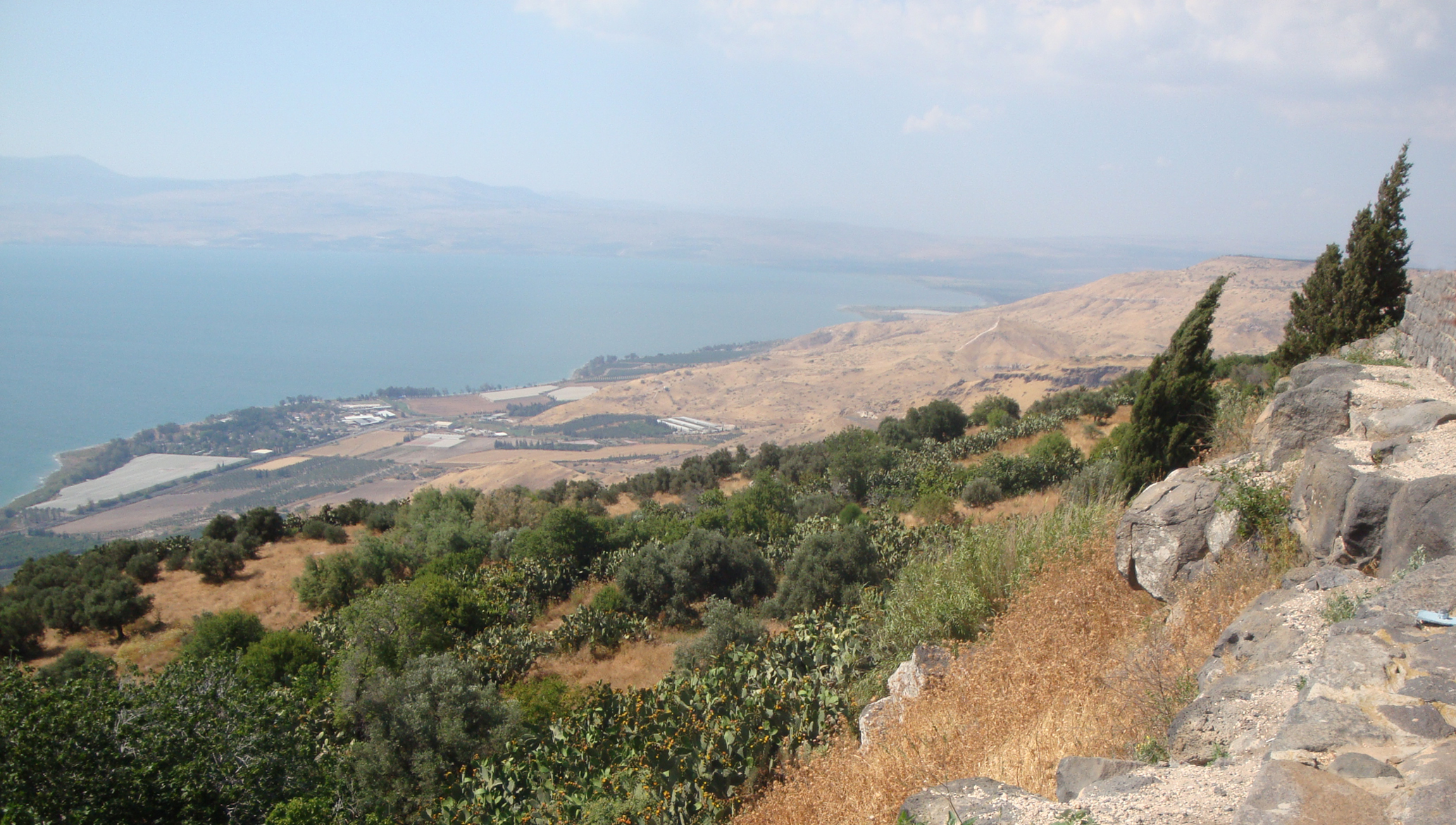 Golan Heights viev